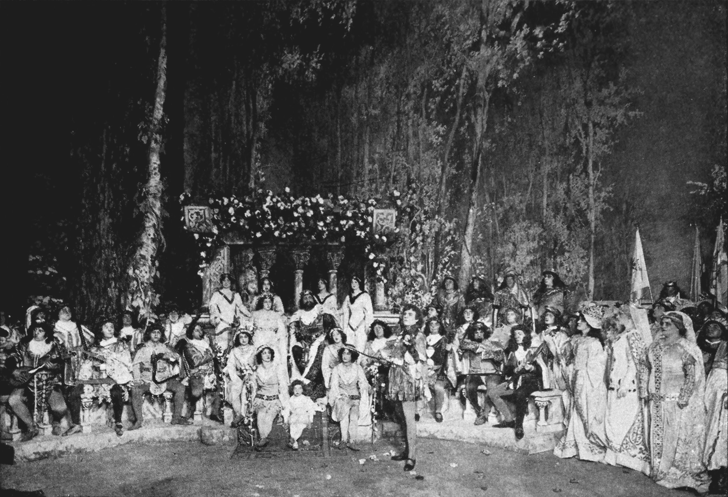 Thuille - Lobetanz, act I - Lobetanz playing for the princess - White, N.Y. Title: The Victrola book of the opera : stories of one hundred and twenty operas with seven-hundred illustrations and descriptions of twelve-hundred Victor opera records Year: 1917 (1910s) Authors: Victor Talking Machine Company Rous, Samuel Holland Subjects: Operas Publisher: Camden, N.J. : Victor Talking Machine Co. Text Appearing Before Image: armi affrettati (Oh, That the Blessed Day Were Come) By Emma Trentini, Soprano, and Alberto Caffo, Tenor 62090 10-inch, $0.75The worthy parish priest having warned Lindas parents of the dishonorable intentionof the Marquis, they decide to remove Linda from the danger, and send her to Paris.The Marquis pursues her to the city and renews his attentions, while Charles (who is inreality the son of the Marquis) is compelled by his father to transfer his attentions to another.Lindas father comes to Paris in disguise, and discovers his daughter. Believing her to bean abandoned woman, he curses her, and she becomes insane through grief. The last act again shows the little farm at Chamounix. The demented Linda has madeher way back to her parents, and is found by Charles, who has escaped the unwelcomemarriage and now brings the release of the farm from debt. The sight of her lover causesLinda to fall in a death-like swoon, but when she recovers her reason has returned, and thelovers are united. Text Appearing After Image: LOBETANZ PLAYING FOR THE PRINCESS ACT I (German) LOBETANZ (English) MERRYDANCE MUSICAL PLAY IN THREE ACTS Text by Otto Julius Bierbaum ; music by Ludwig Thuille. First production at Mann-heim, Germany, 1898. First production in America November 18, 1911, with Gad ski,Jadlowker, Witherspoon and Murphy. Cast LOBETANZ Tenor THE PRINCESS Mezzo-Soprano THE KING Bass THE FORESTER, ) THE HANGMAN. ( Speaking Parts The Judge. J Girls, musicians, prisoners, two heralds, the people.